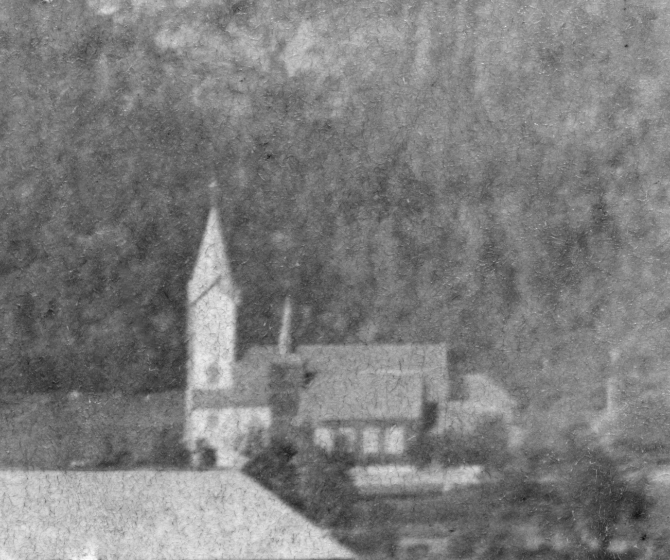 Åfjord kirke with the old church from 1770 in the foreground